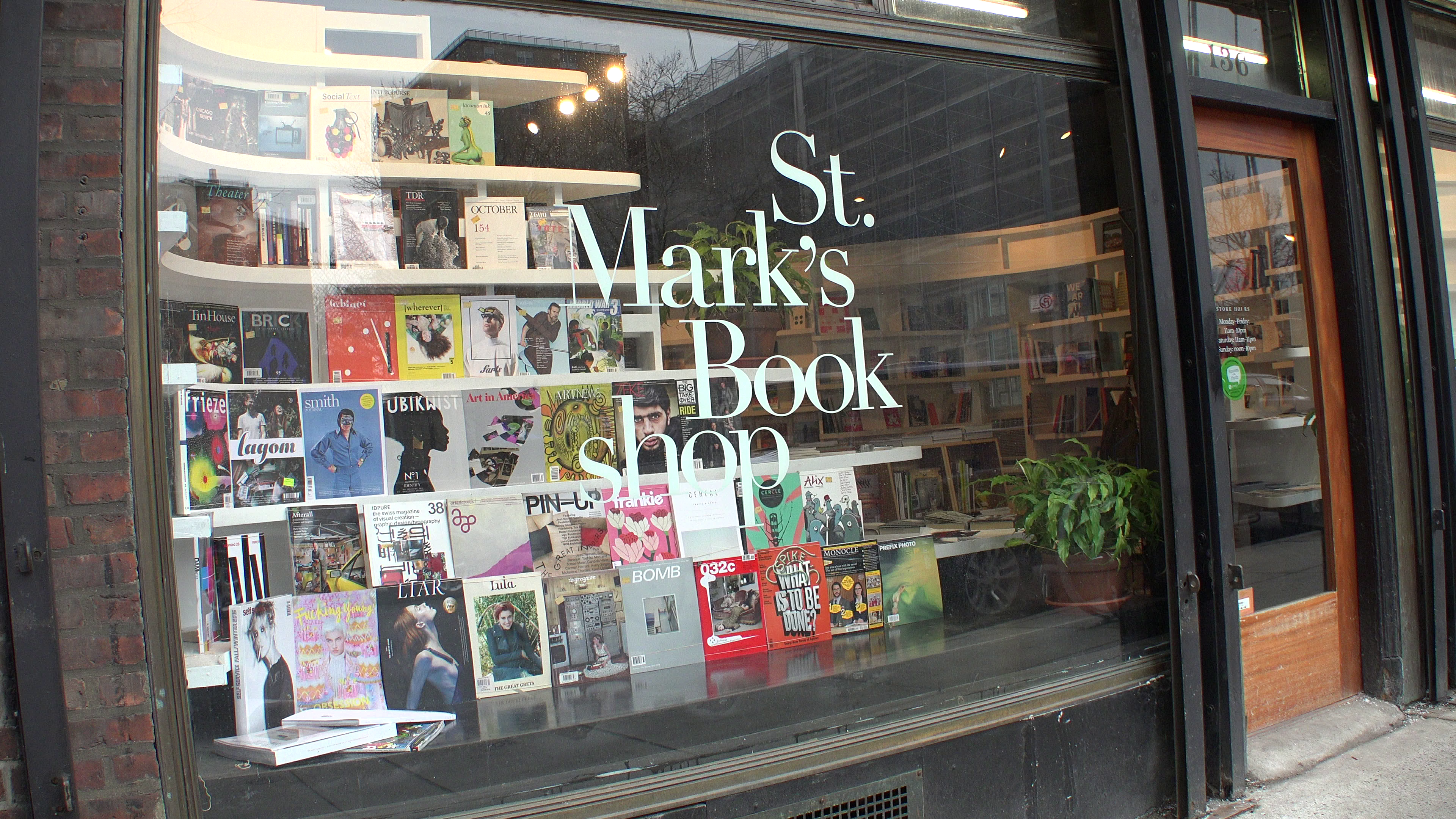 St Marks Bookstore, closeup, in New York City